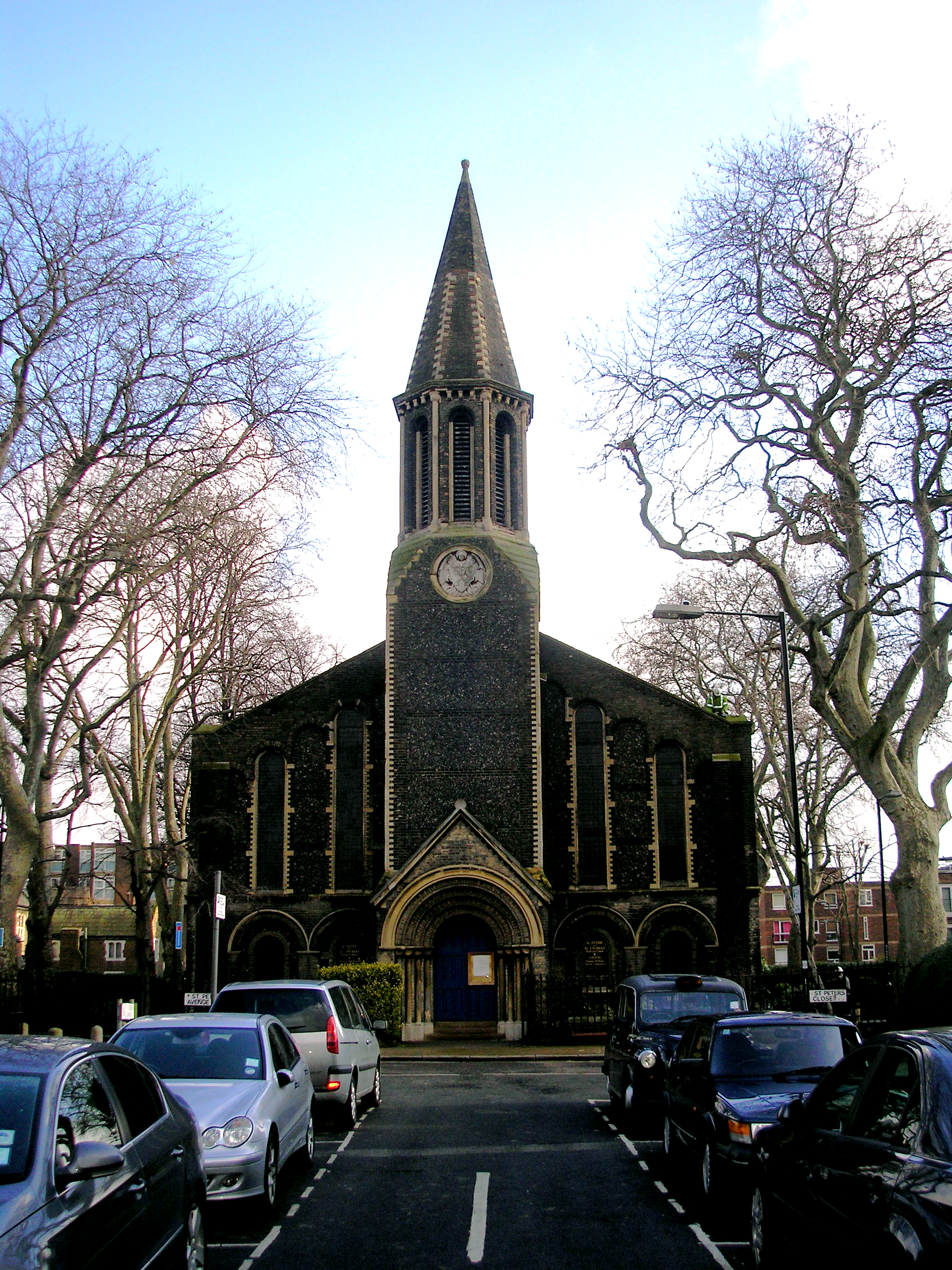 Parish church of SS Peter and Thomas, St Peter's Close, Bethnal Green, London E2, seen from west-southwest